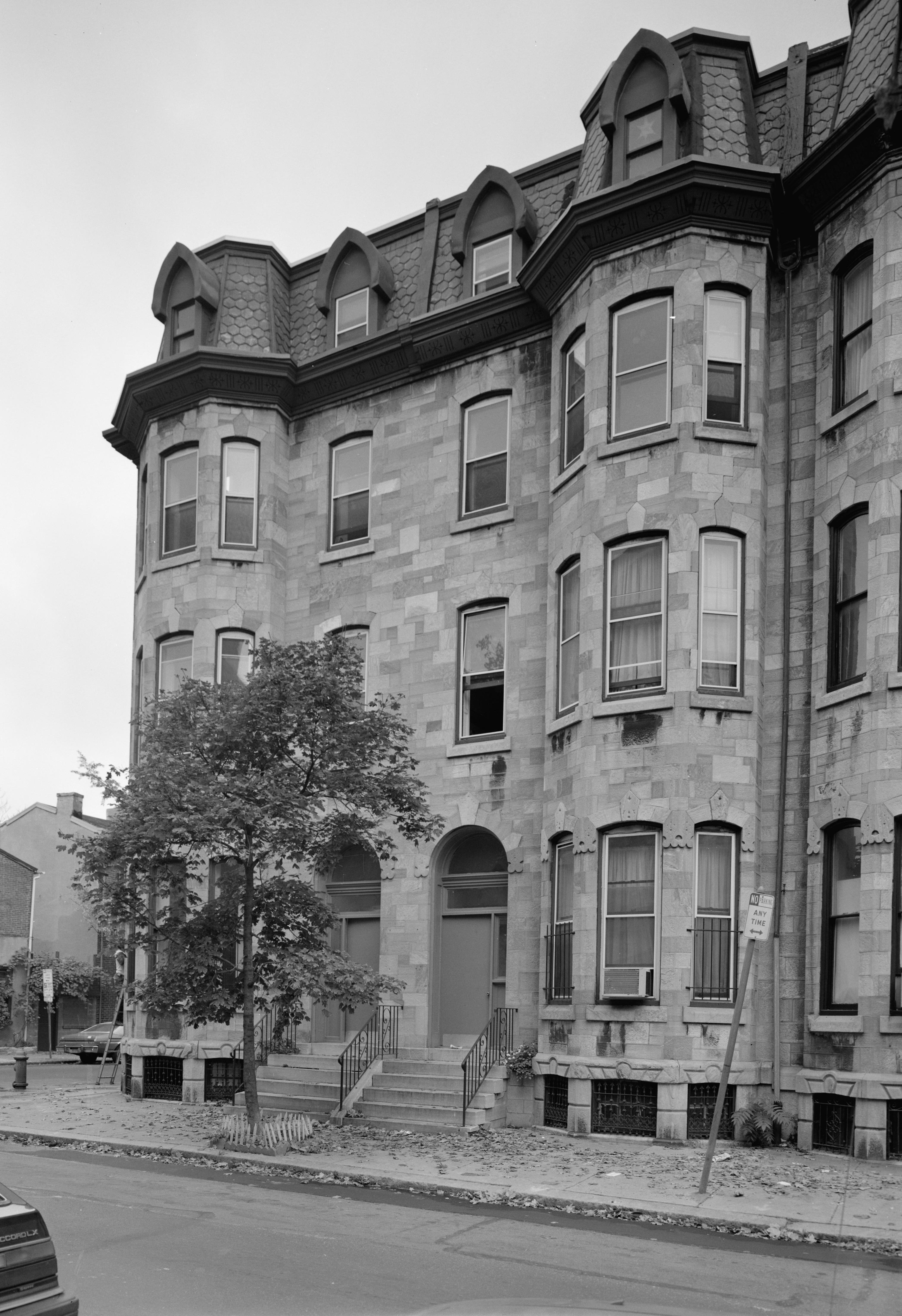 Edward Drinker Cope Houses, 2100-2102 Pine Street, Philadelphia (Philadelphia County, Pennsylvania) (cropped)